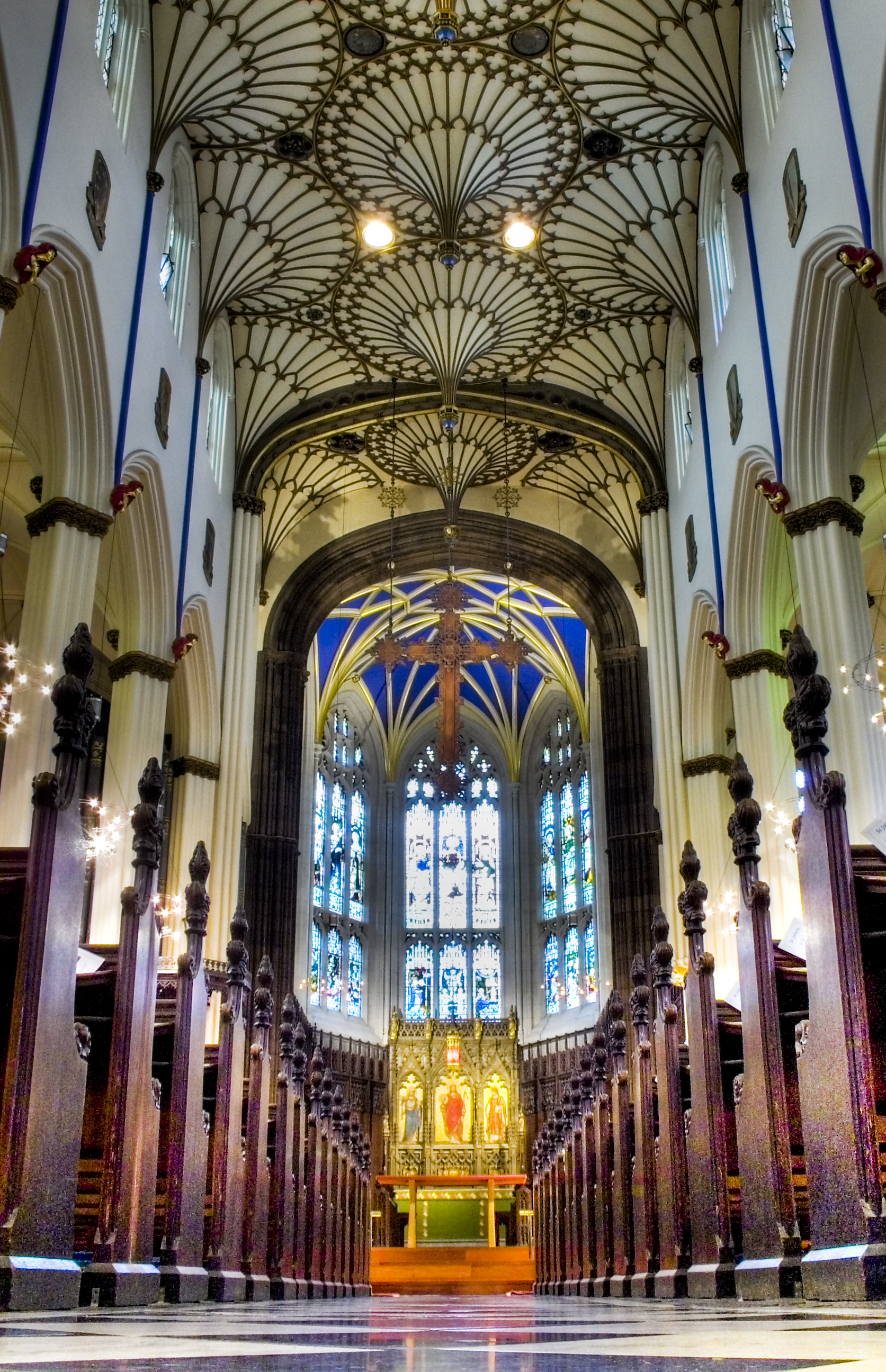 I put the camera on the ground, propped up against my phone, to get this shot! I was worried someone was going to walk in front of the camera, but luckily they didn't :)